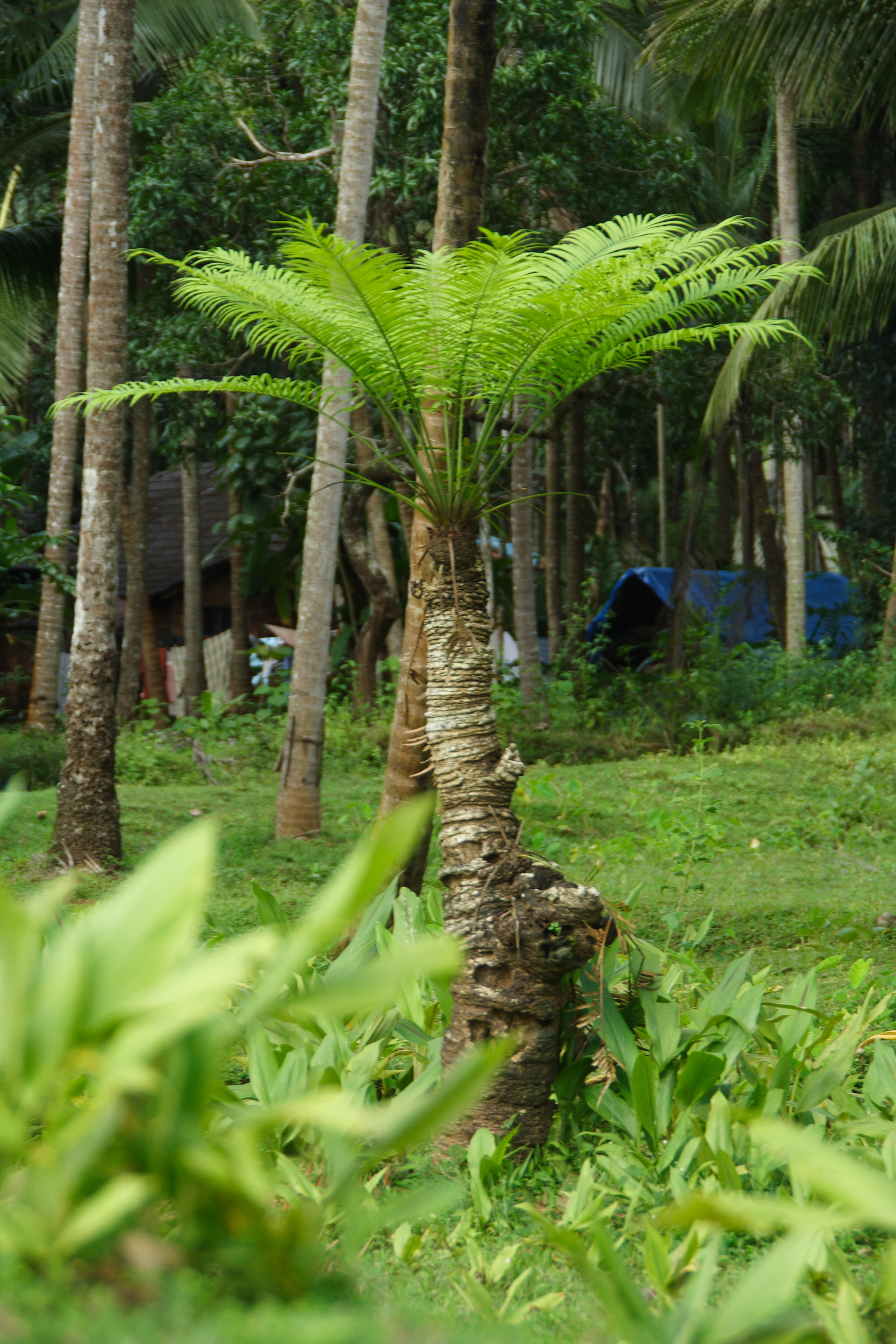 Large palm near Kannur, Kerala. Fruits are used in Ayurveda. Malayalam: Cittintal, Sanskrit: Parusakah, Hindi: Palavat